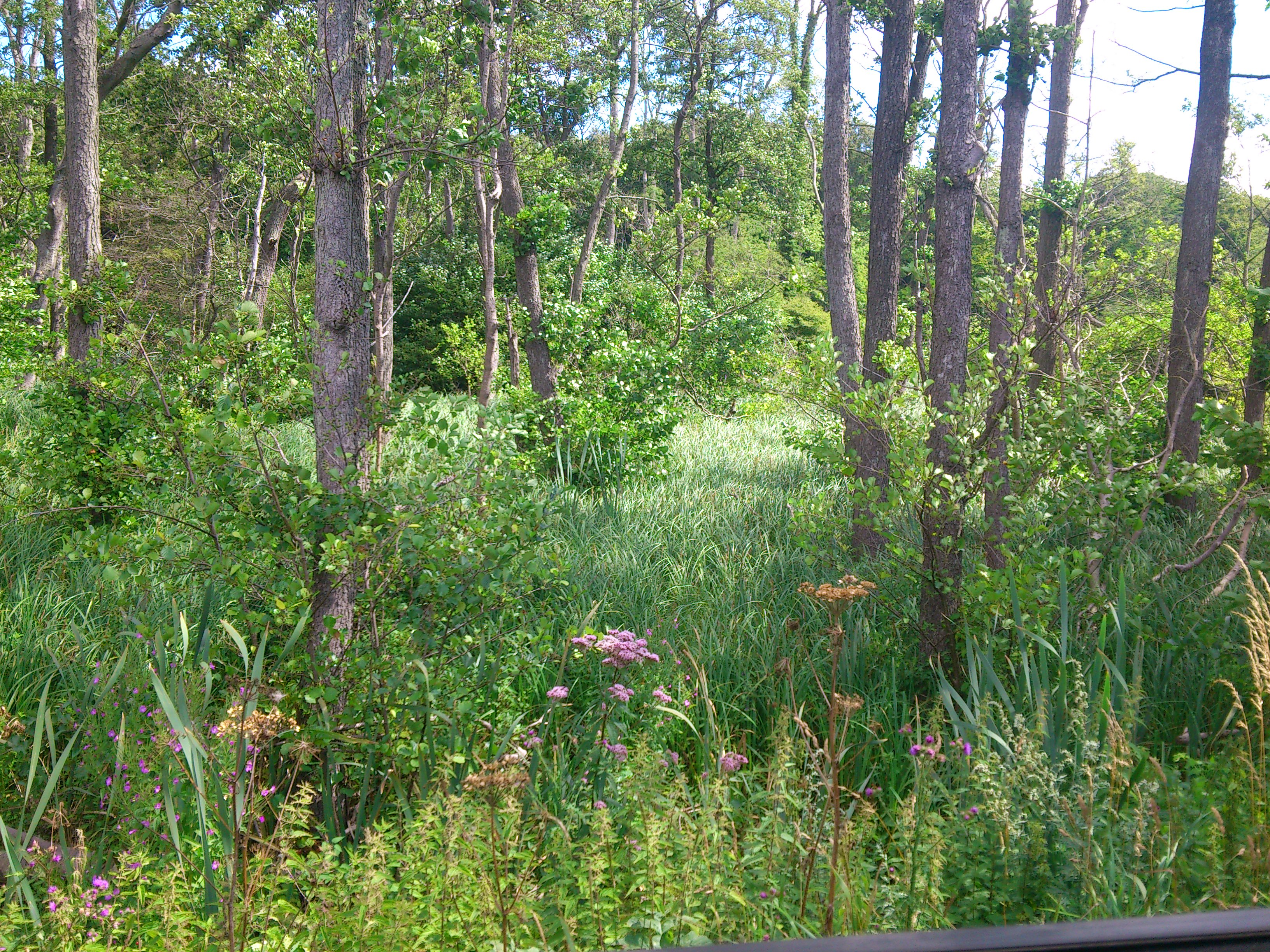 From "Store Åmose", the largest lowland bog in Denmark.